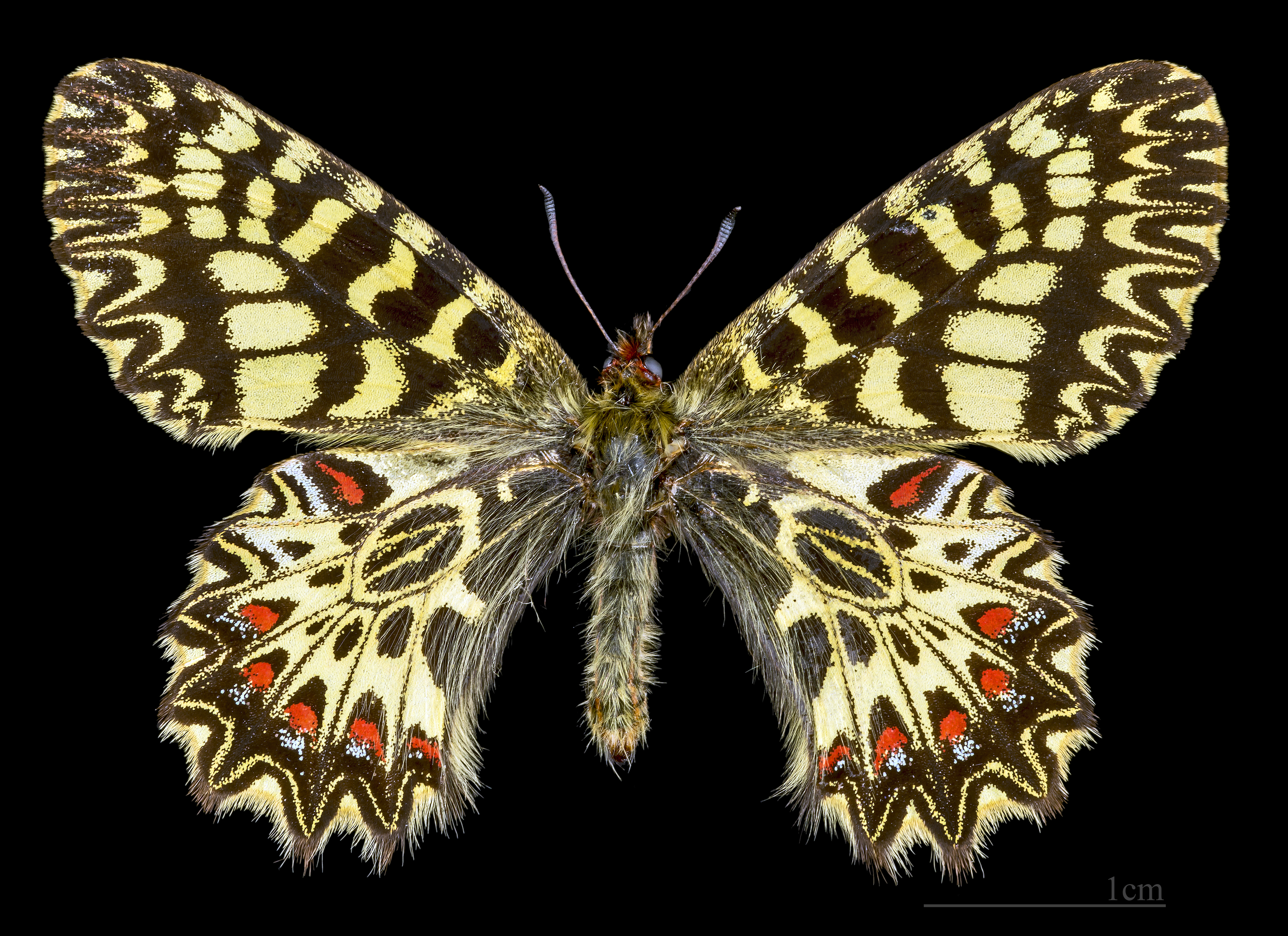 Southern Festoon. Dorsal side.